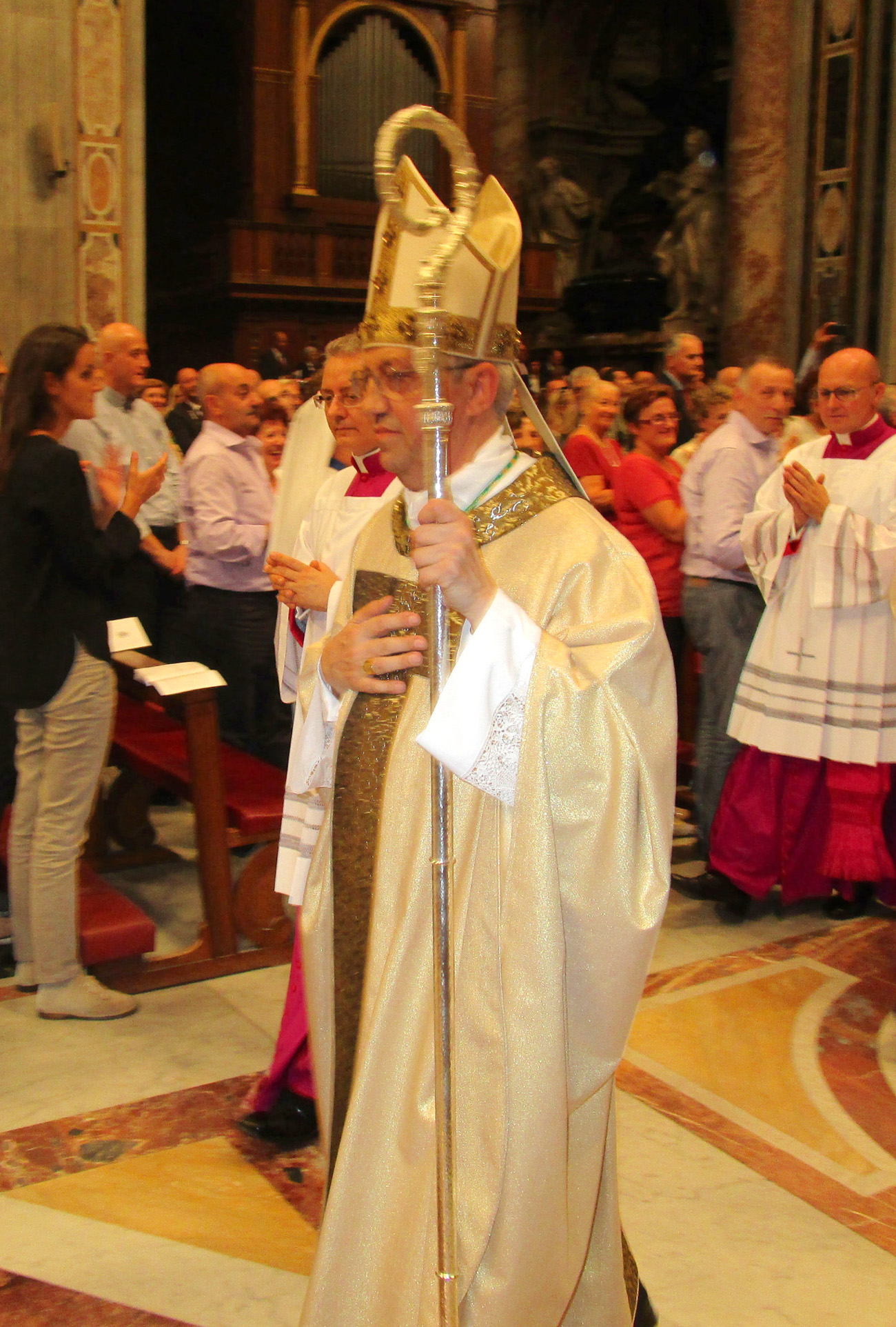 Maurizio Malvestiti, bishop of Lodi, Italy